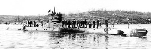 United States Navy submarine